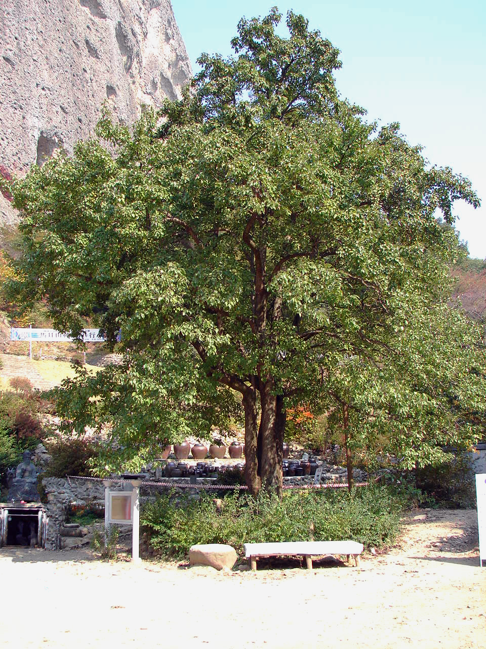 Cheongsilbae (Pear Tree) at Eunsusa (Silver Water Temple) in the Maisan (Hourse Ear Mountain) in Jinan County, North Jeolla Province, South Korea. Natural Monument #386